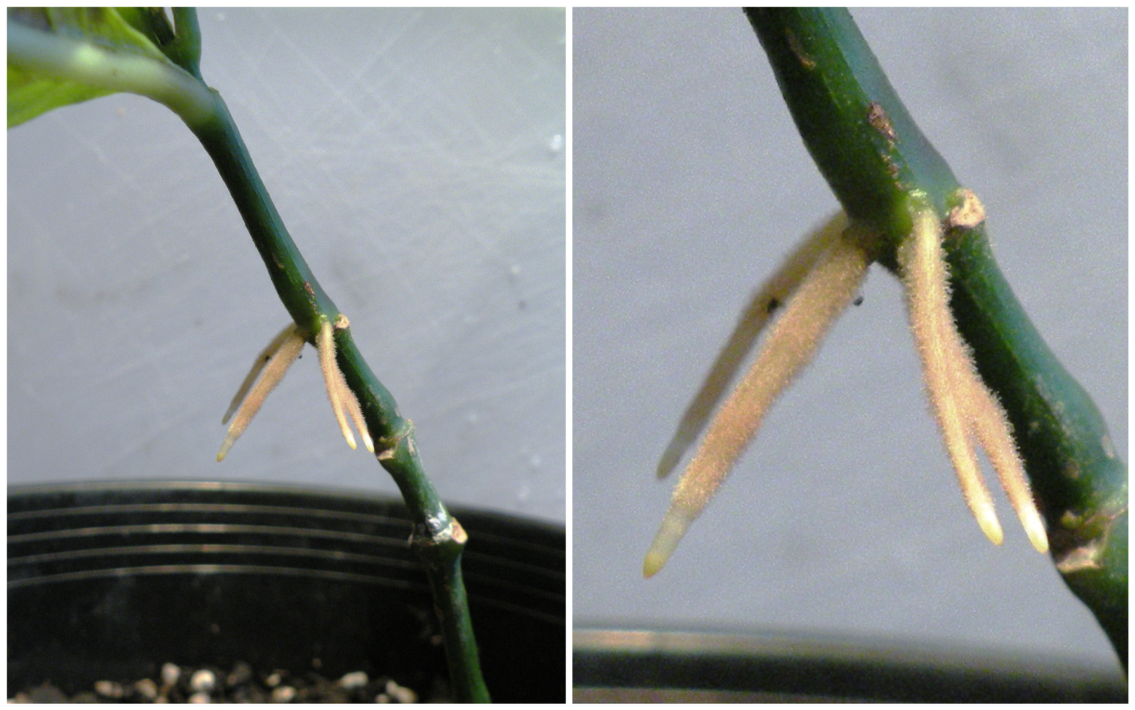 Roots forming above ground, part-way up an Odontonema stem cutting after planting. The cutting was covered in a plastic bag to retain moisture and humidity.